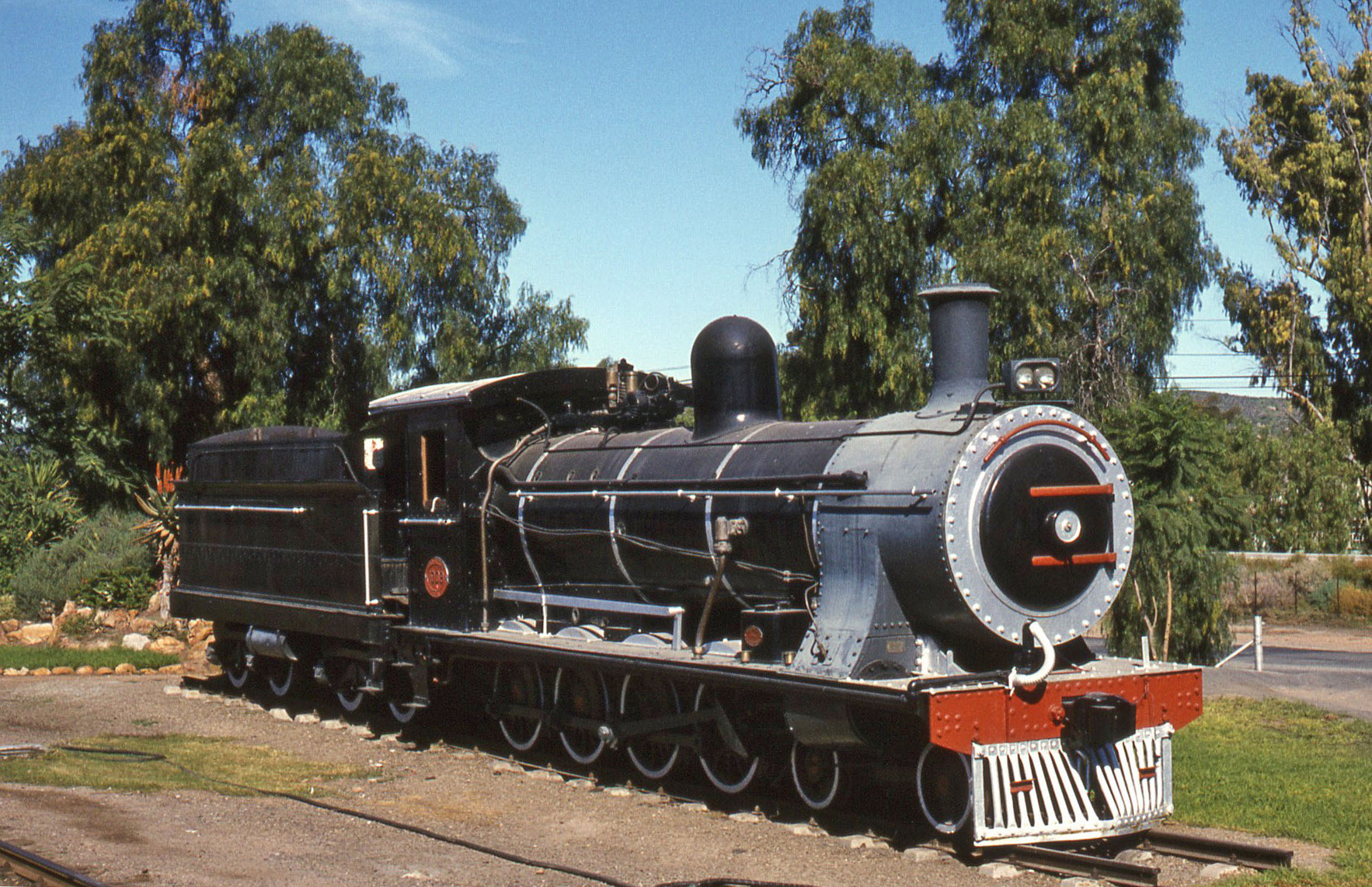 SAR Class 7A 1009 (4-8-0) Location: Oudtshoorn